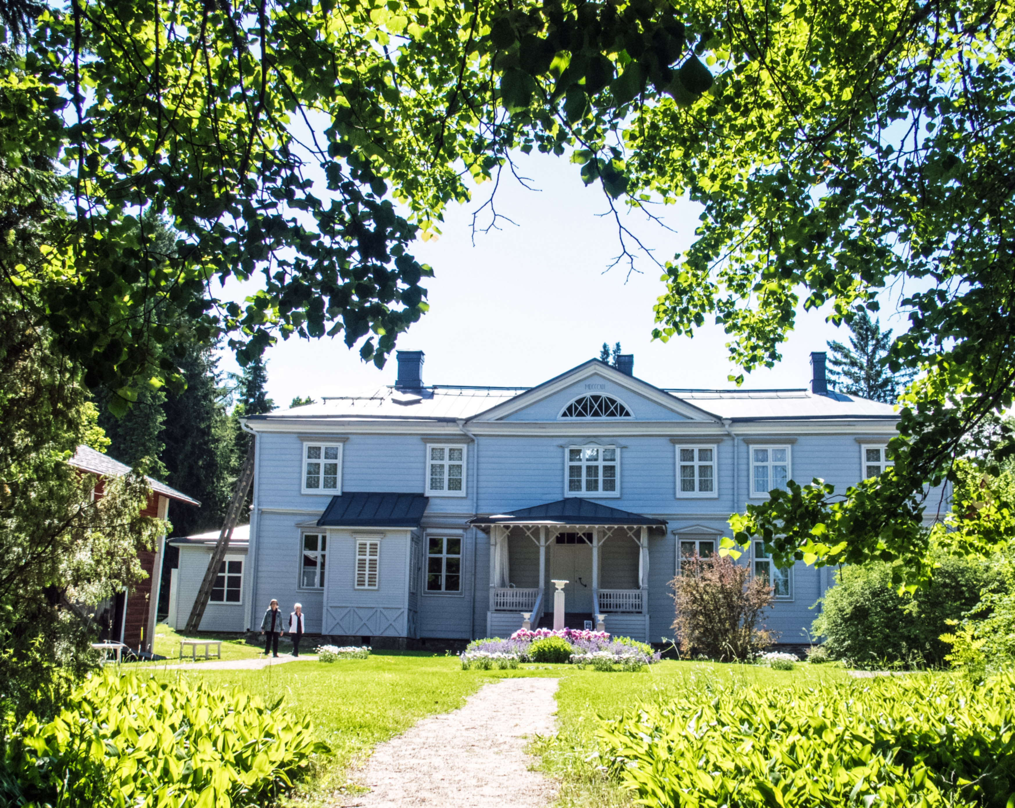 Urajärven kartano, now museum, in Urajärvi, Asikkala, Finland.